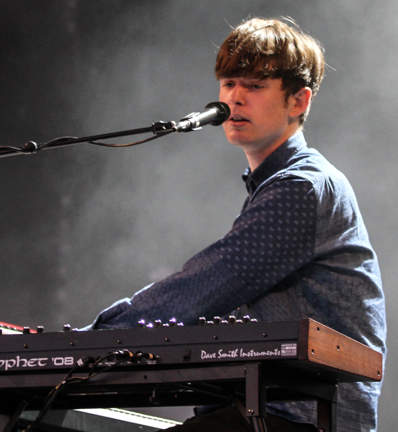 James Blake performing at Melt! Festival 2013